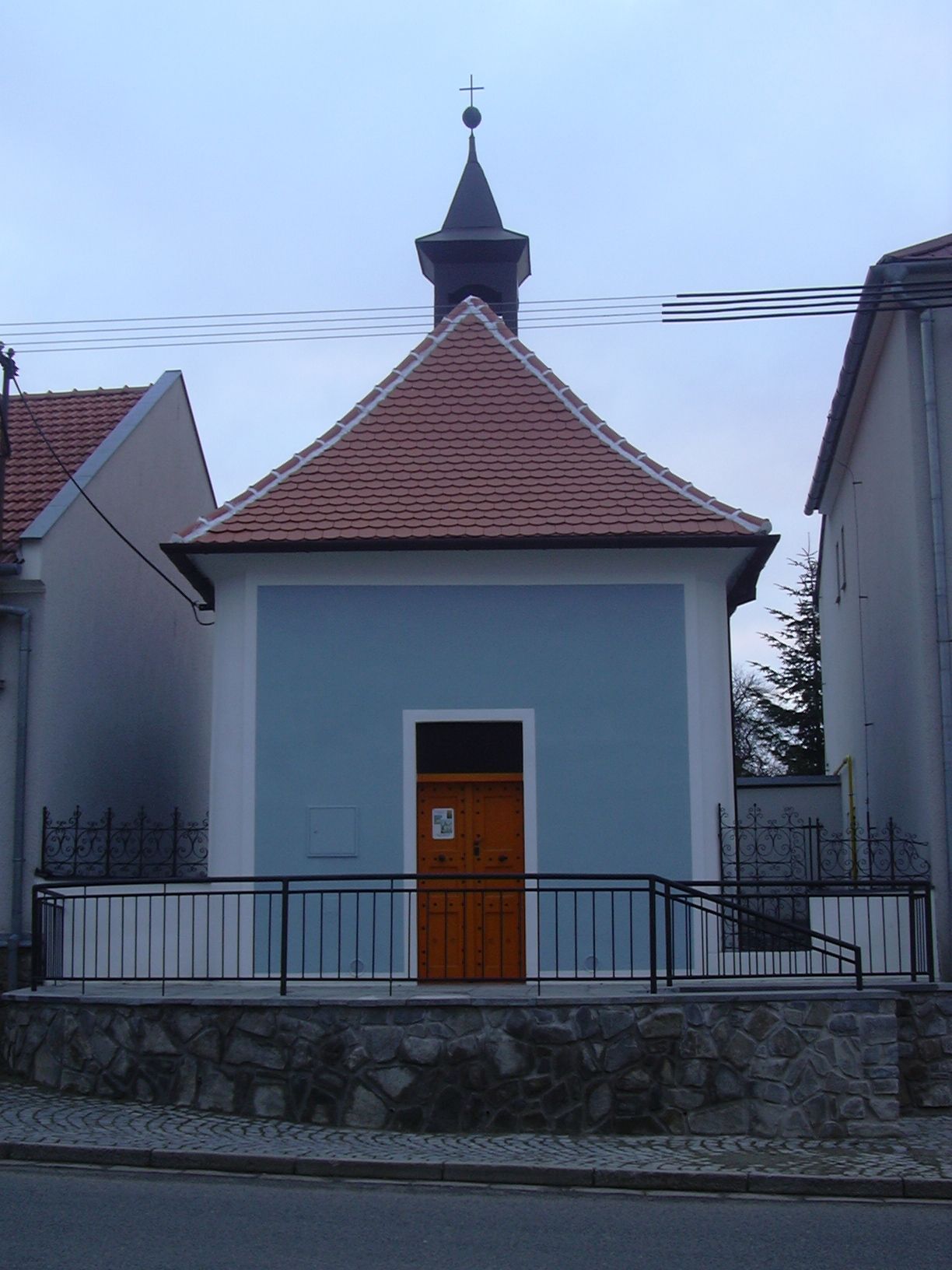 Chapel of St Michael in Brňany (a part of Vyškov town, Czech Republic)